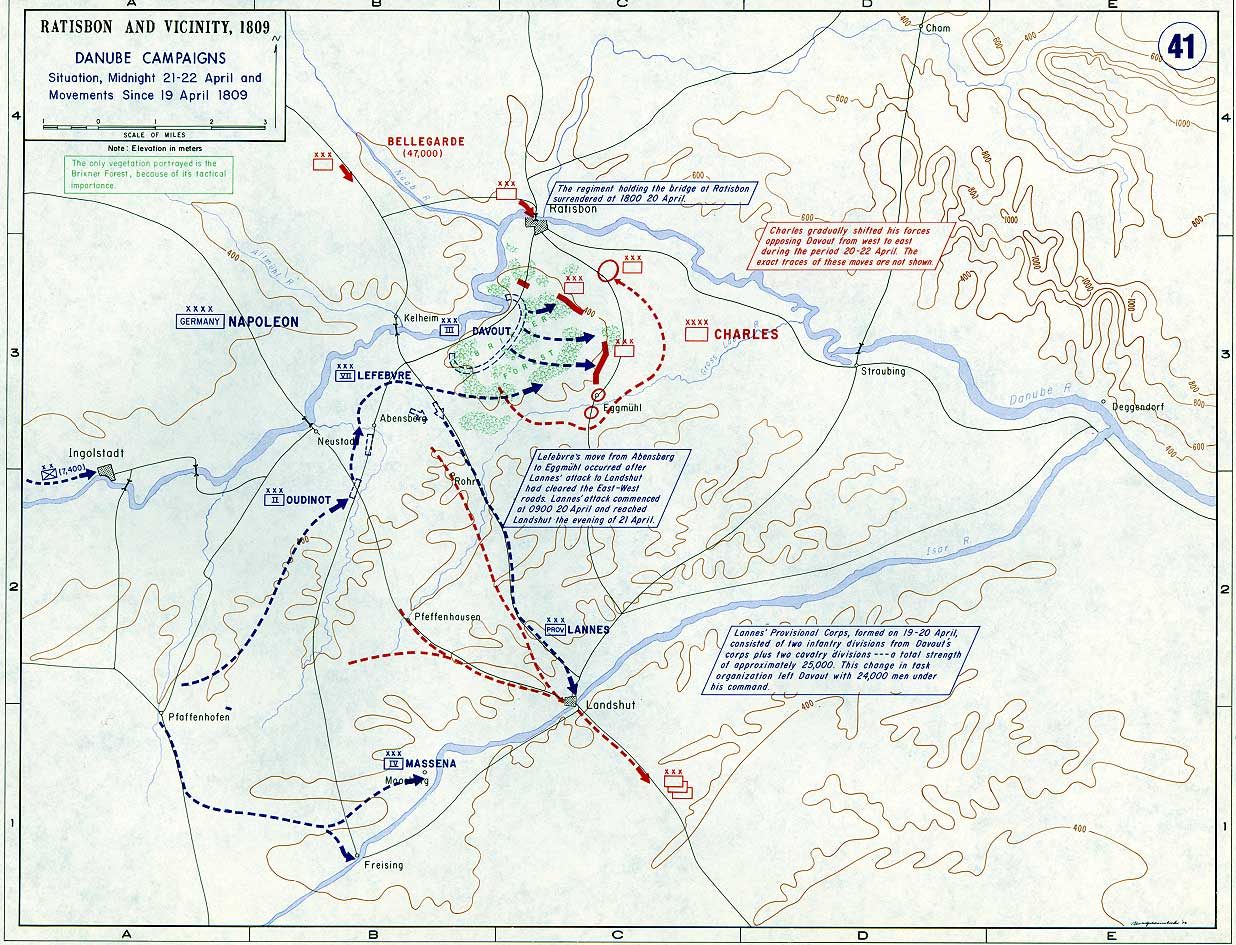 Eckmuhl_April_21.jpg, Map of the situation at the Battle of Eckmuhl as of Midnight April 21-22, 1809